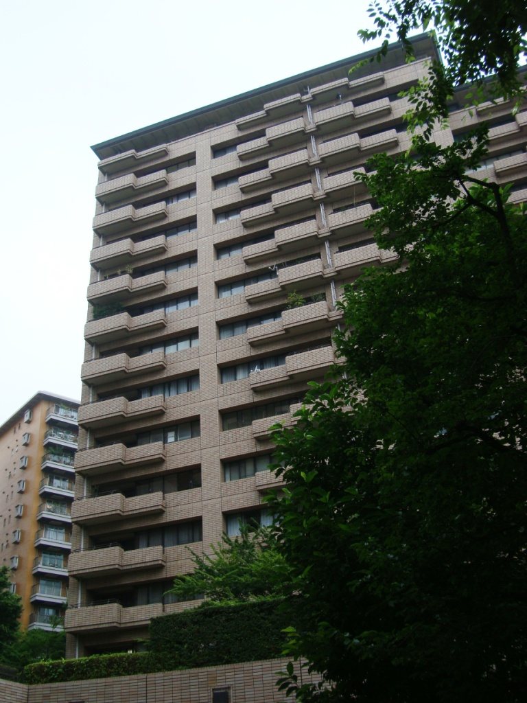 The Center Hill section, Hiroo Garden Hills complex, Shibuya city, Tokyo